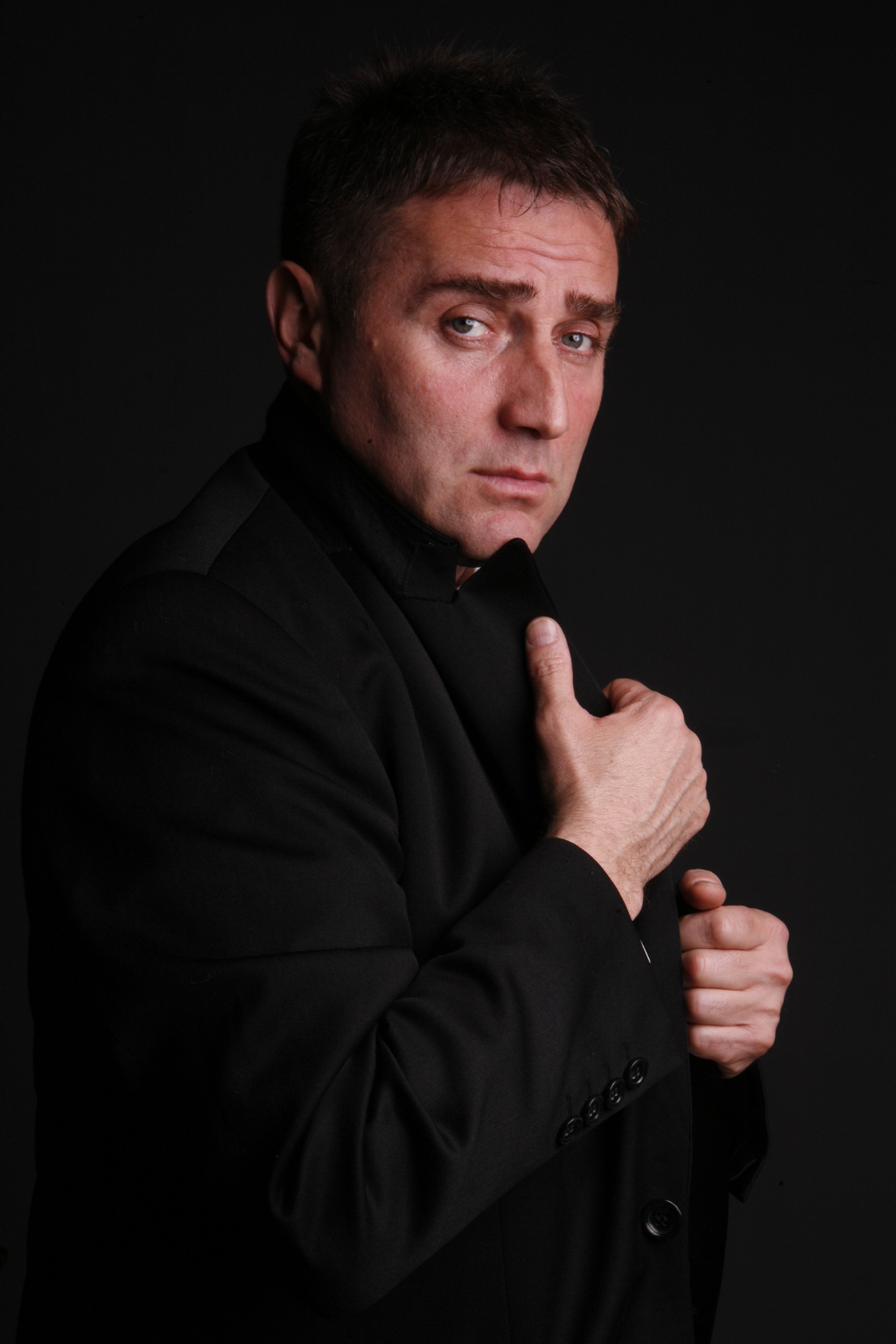 Oliver Njego, opera singer from Serbia